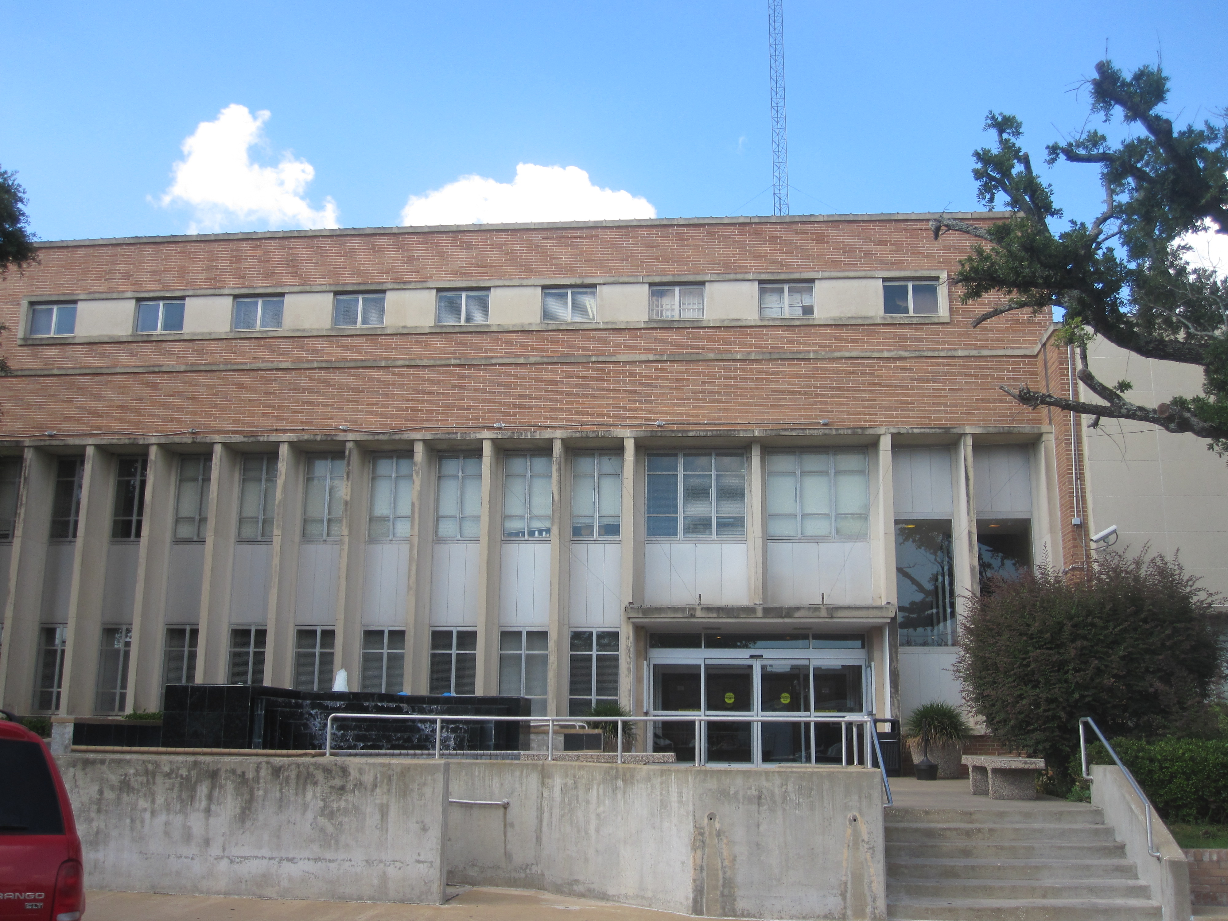 Angelina County Courthouse in Lufkin, Texas.